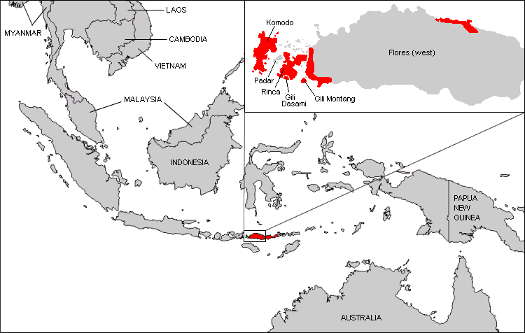 Distribution of the Komodo Dragon according to: J. Murphy, C. Ciofi, C. de la Pennouse & T. Walsh (2002): Komodo Dragons - Biology and Conservation. Smithsonian Books, Washington. ISBN 1588340732 Claudi Ciofi (2004): Varanus komodoensis. In: E. R. Pianka & D. R. King (Hrsg.): Varanoid Lizards of the World, S. 197–204. Indiana University Press, Bloomington & Indianapolis. ISBN 0253343666 It was painted by hand in Microsoft Paint, so it might be slightly inaccurate.